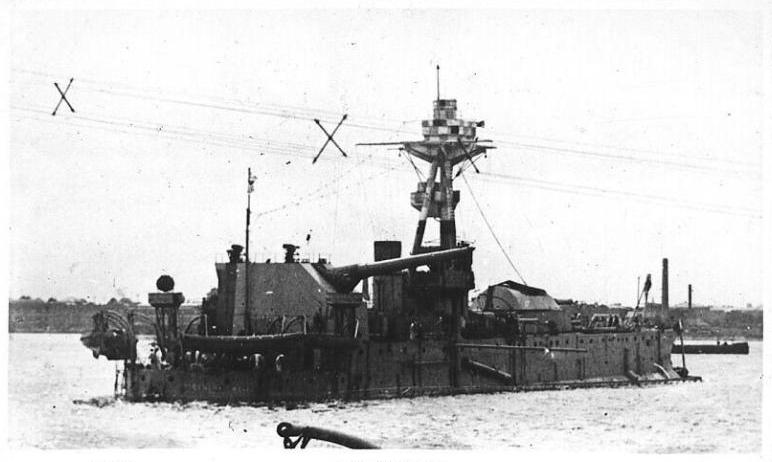 Royal Navy monitor H.M.S. General Wolfe's starboard quarter, showing single 18 inch gun mounting facing starboard